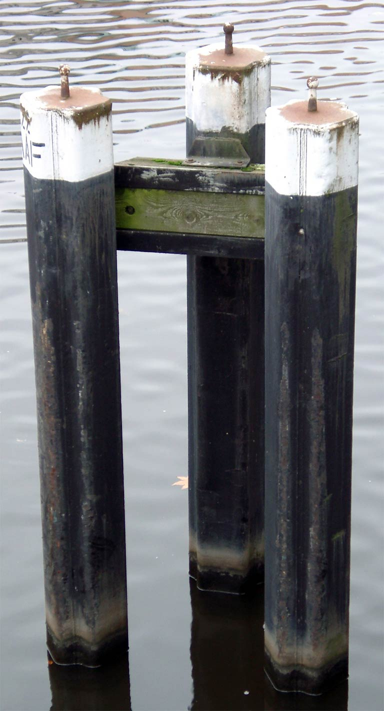 A dolphin.